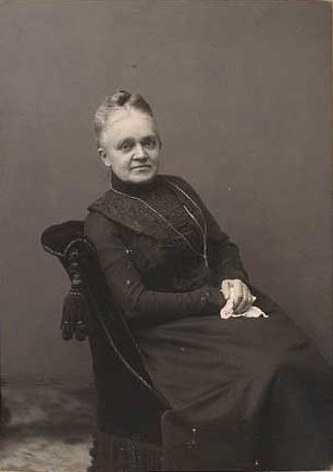 Marie Caroline Ernestine Clementine Kruse (1842-1923), Danish educator